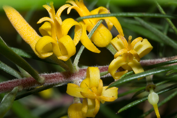 Persoonia linearis flowers May 2013. Taken at the end of Cabbage Tree Road, Grose Vale